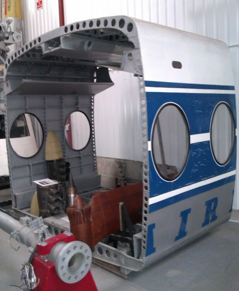 Fuselage section of the Fairey Rotodyne prototype, on display at The Helicopter Museum, Weston-Super-Mare.